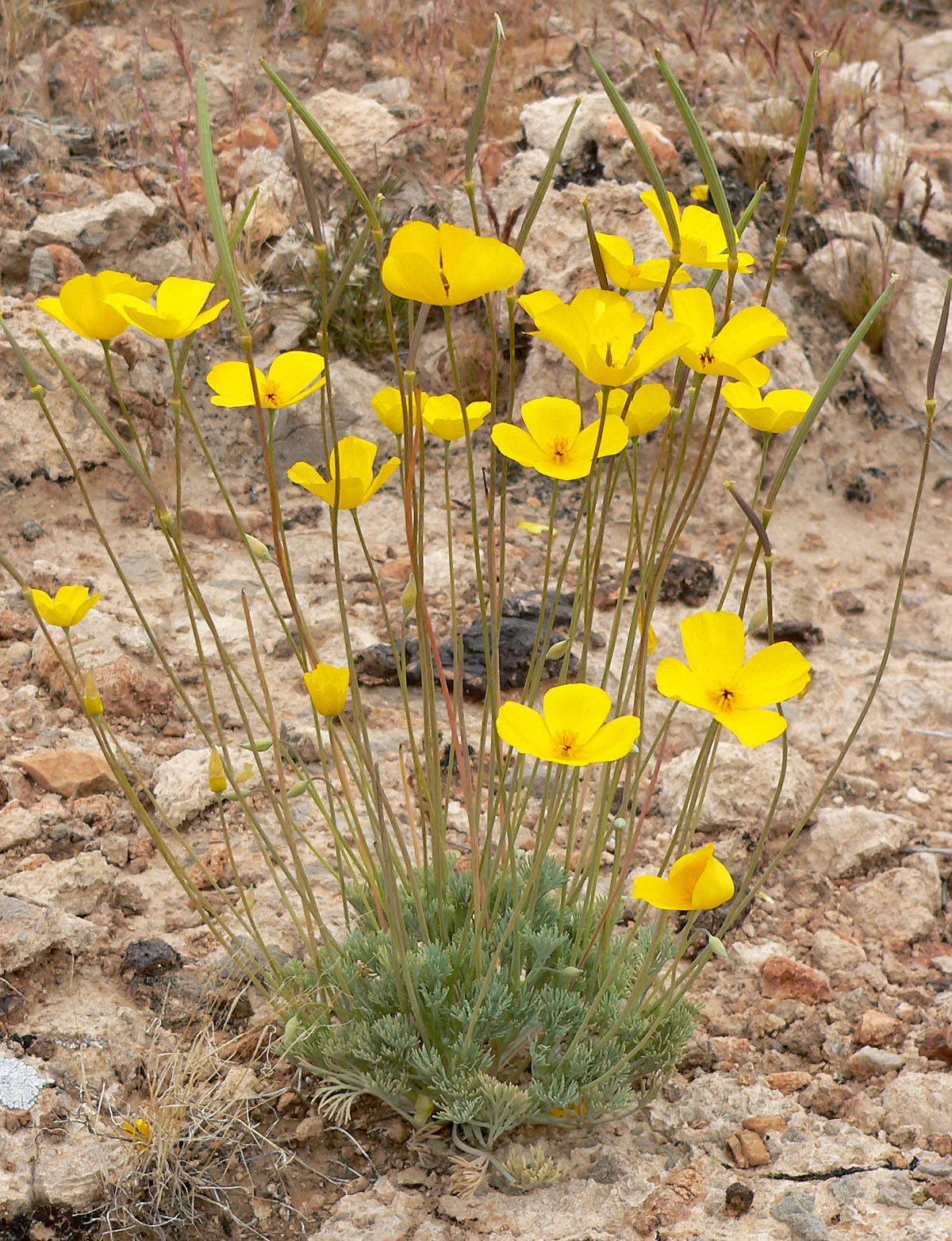 Photo of Eschscholzia glyptosperma in the desert west of Las Vegas, Nevada (just off the end of Tropicana Avenue)